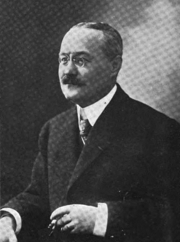 Pierre Mille